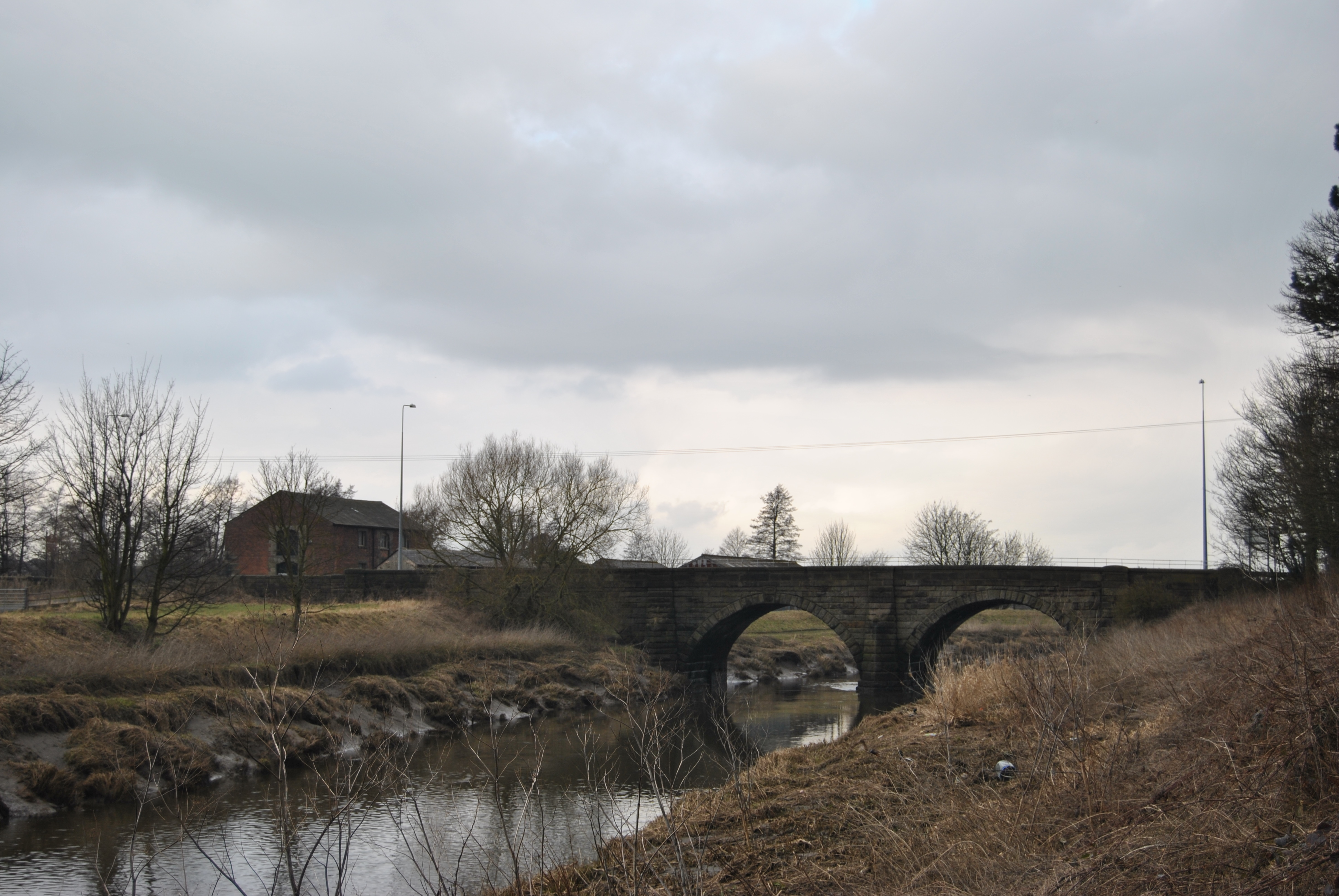 A view of Bank Bridge and the warehouse from the banks of the River Douglas.